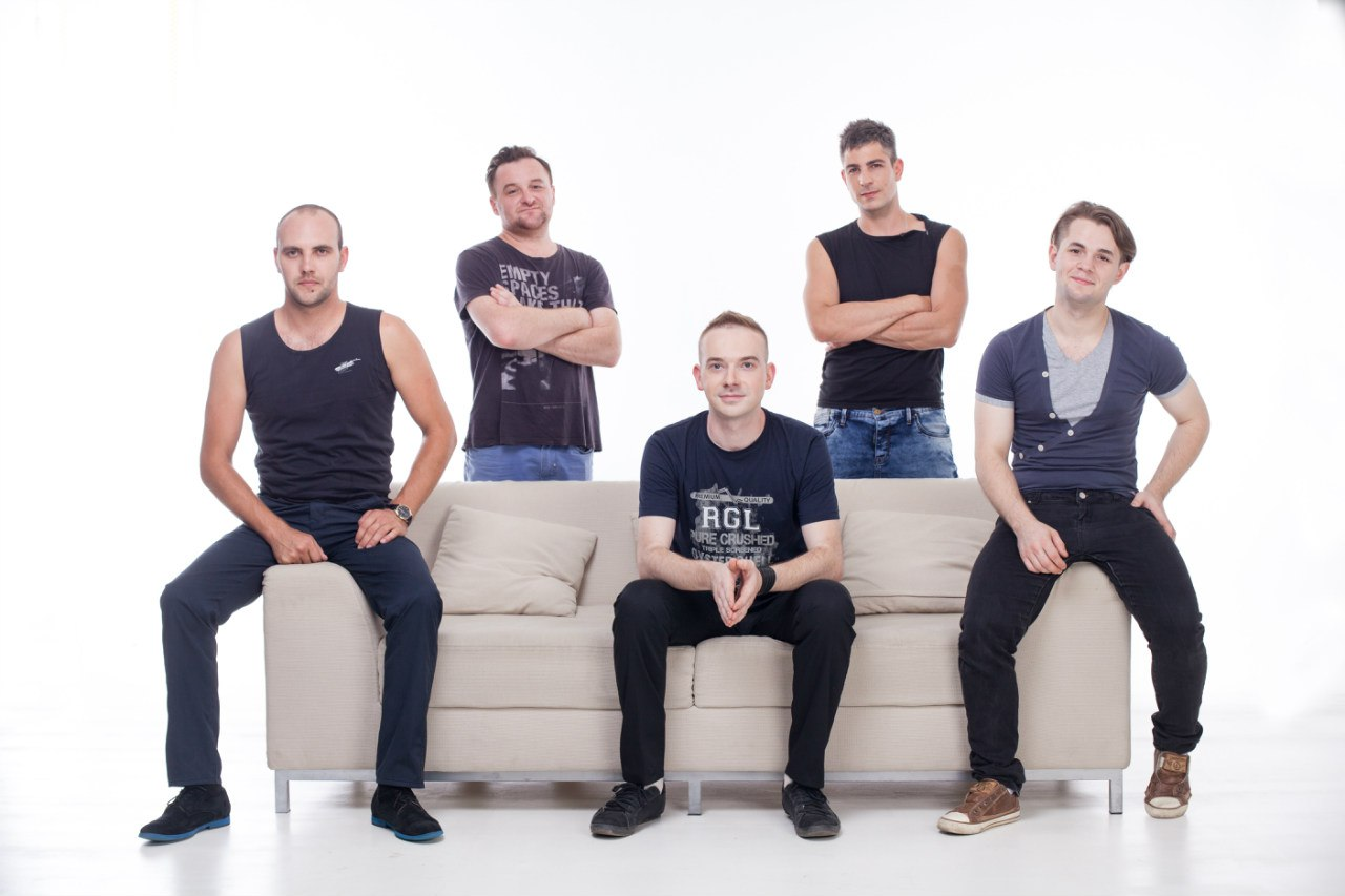 Polusy (music band)